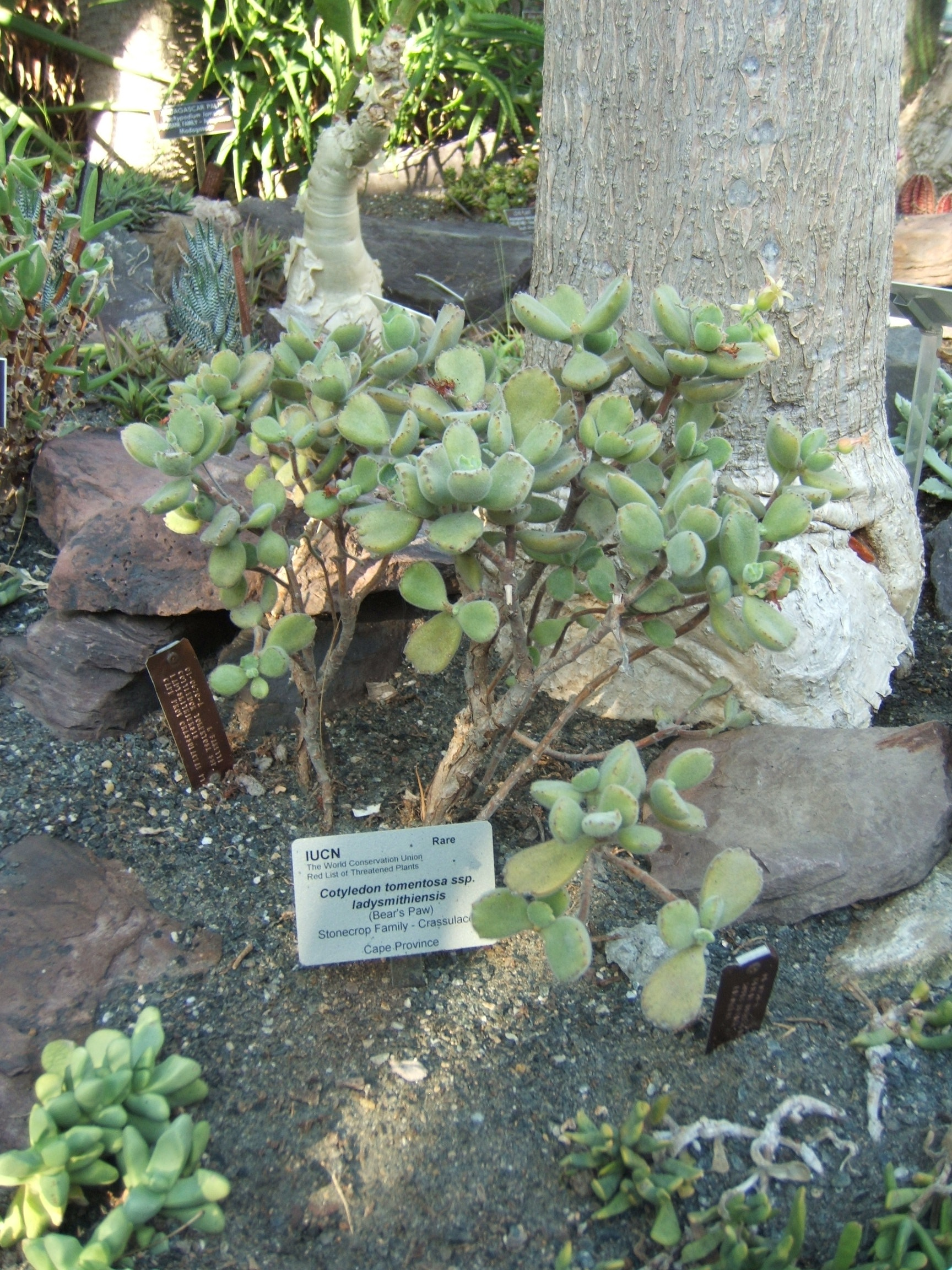 Cotyledon tomentosa ssp ladysmithiensis at the US Botanical Garden